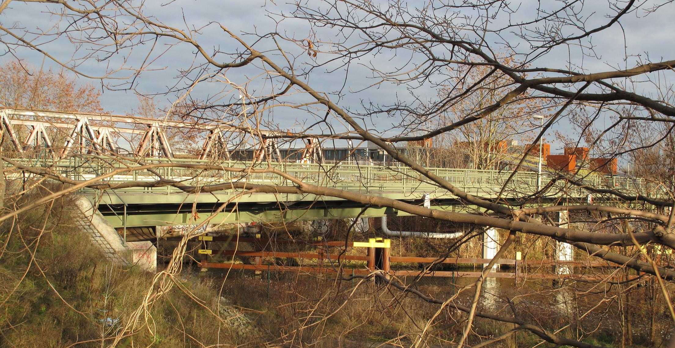 The Altglienicker Brücke is a street bridge of the Köpenicker Straße in Berlin-Adlershof crossing the Teltowkanal (canal). It was built in 1995 as a temporary girder bridge (in the foreground) beside the historical iron truss bridge (in the background), which was closed in 1993 due to disrepair. In 2009 this provisional bridge continues.